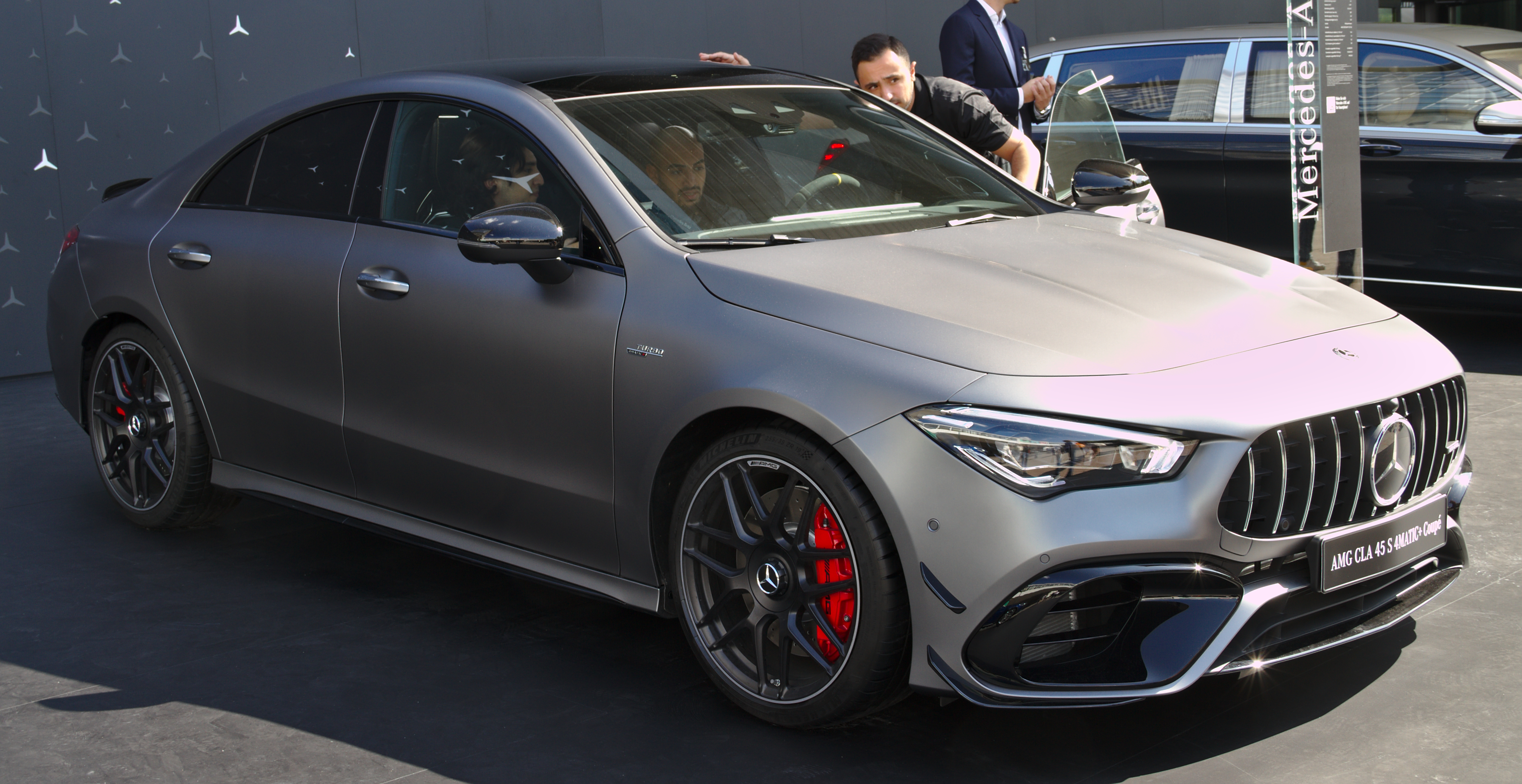 Mercedes-AMG_CLA_45_S_4MATIC+_(C118) at IAA 2019